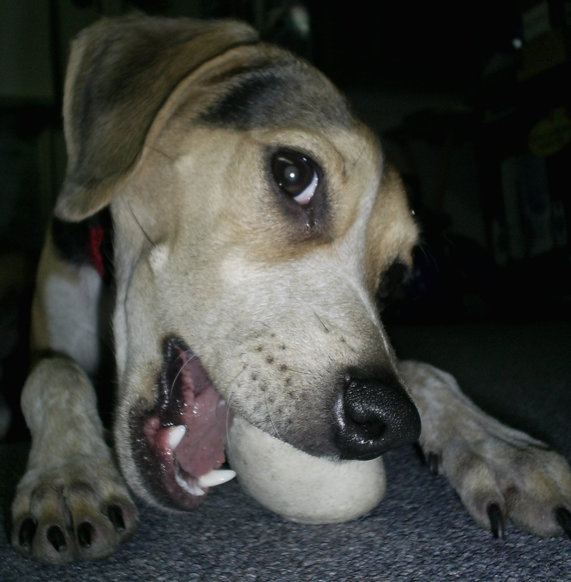 Beagle Terrier mixed breed dog